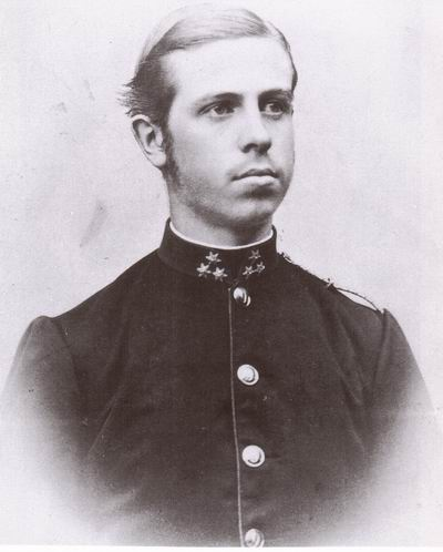 Archduke Johann Salvator of Austria-Tuscany, pseudonyme Johann Orth, youngest son of Leopold II Grand Duke of Tuscany. Born 1852, died at sea in 1890.